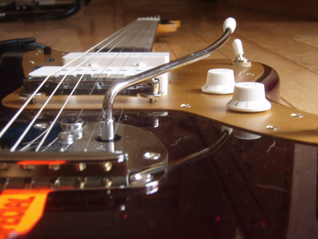 Fender Japan Jazzmaster viewed from bottom